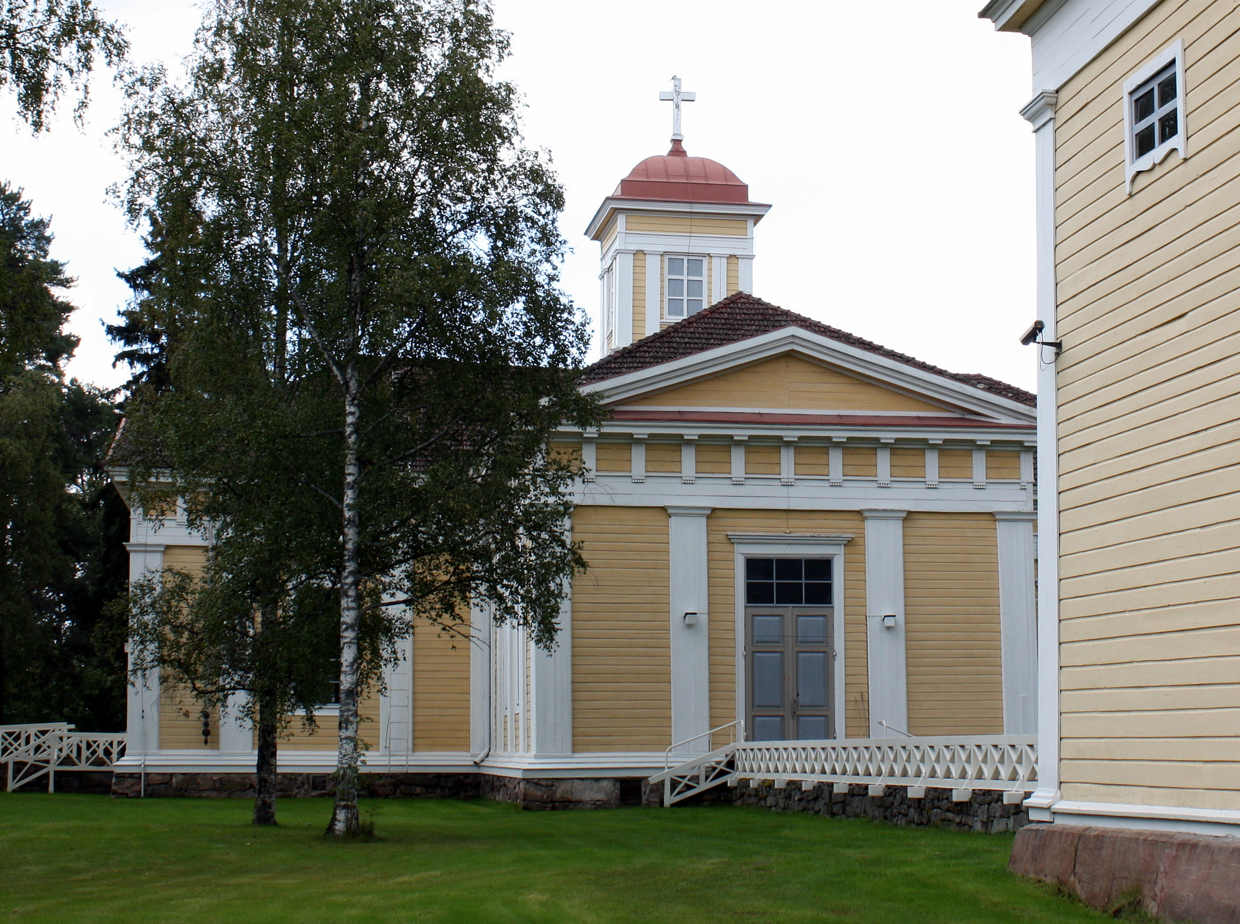 Kärsämäki Church. It was designed by architect Carl Ludvig Engel in 1828, but not built until 1842.